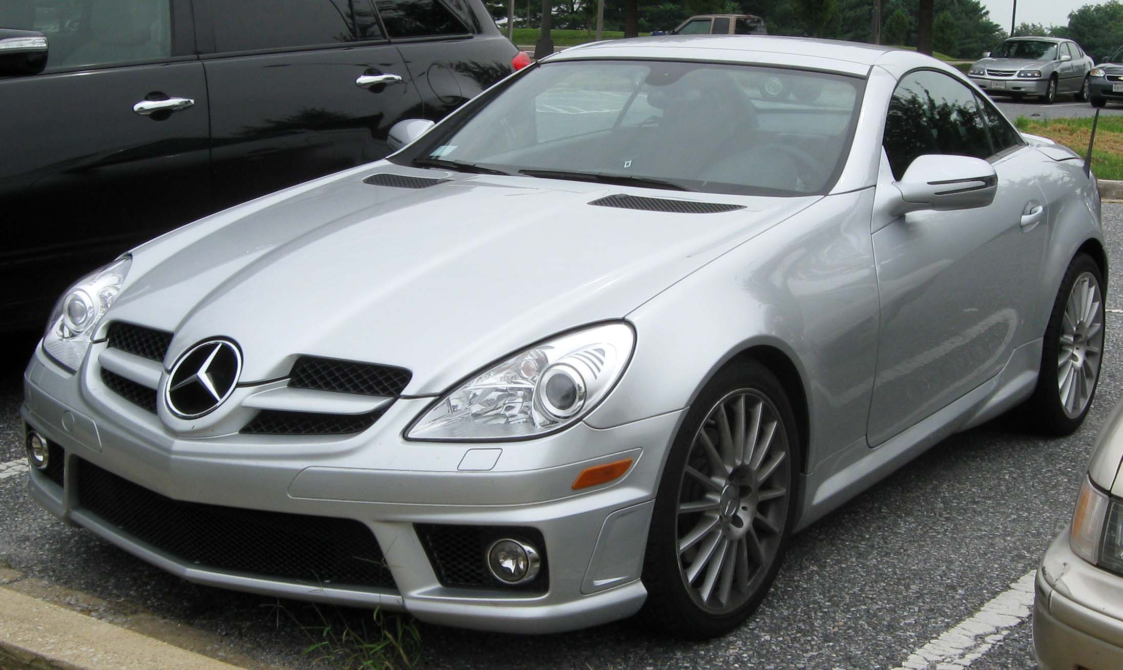 Mercedes-Benz SLK photographed in Fulton, Maryland, USA.